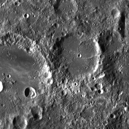 LROC . Nassau at center, Van de Graaff at left